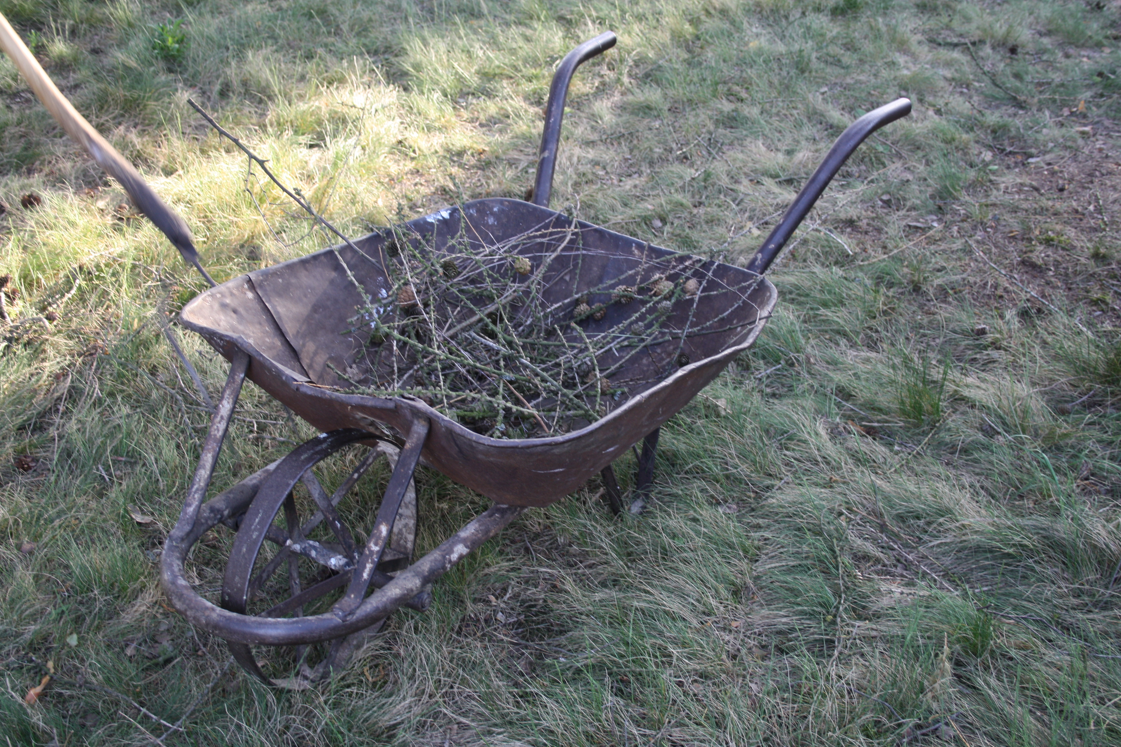 Iron push-truck with wood.